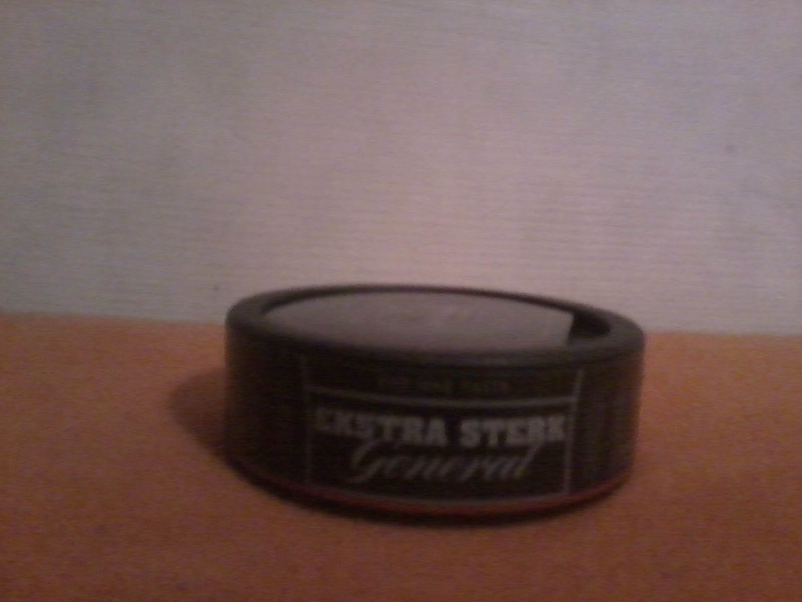 General Extra Sterk Portion (26.05.2010)